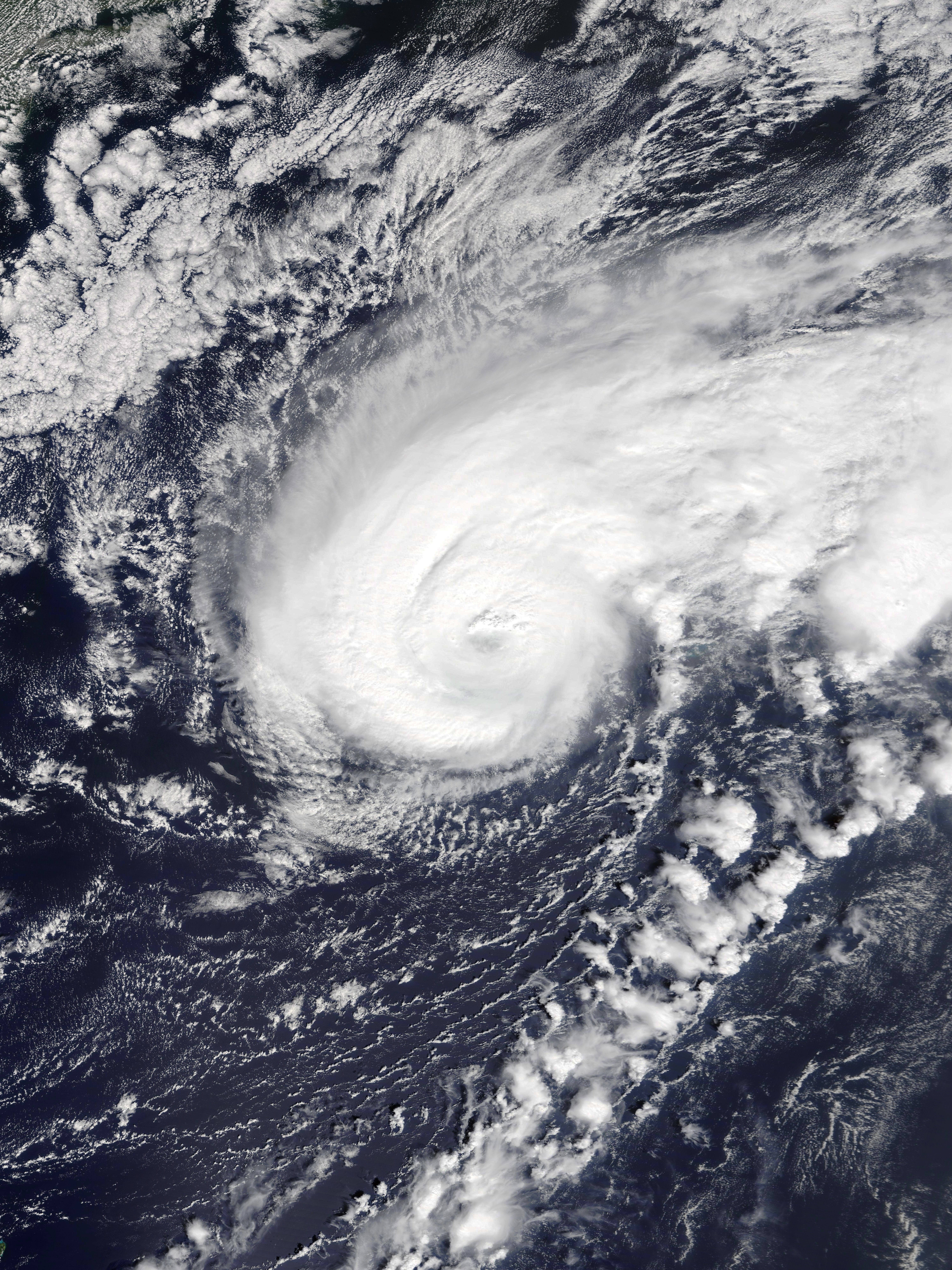 Hurricane Humberto west of the island of Bermuda on September 18, 2019